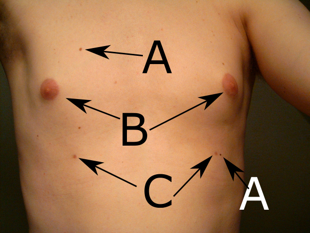 Supernumerary nipples. (Third and fourth nipple of male scandinavian). A - regular birthmark. B - regular nipple. C - Supernumerary nipple